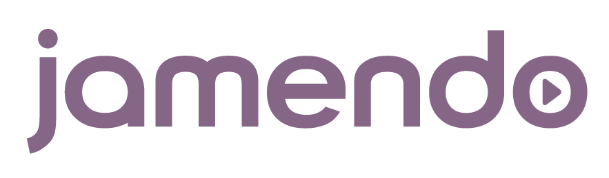 Jamendo's current logo.